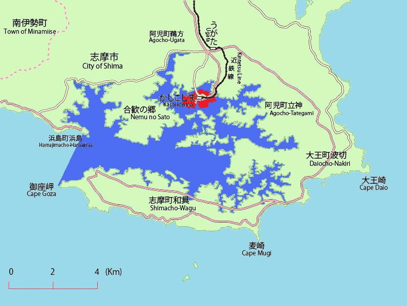 This is the map of Kashikojima in Shima,Mie,Japan. Red is Kashikojima, Bule is Ago Bay, Aqua is Philippine Sea, Pink is Japan Route, Yellow is Mie prefectural road.